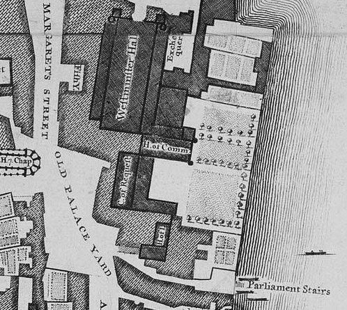 A close crop of Parliament, taken from John Rocque's 1746 map of London